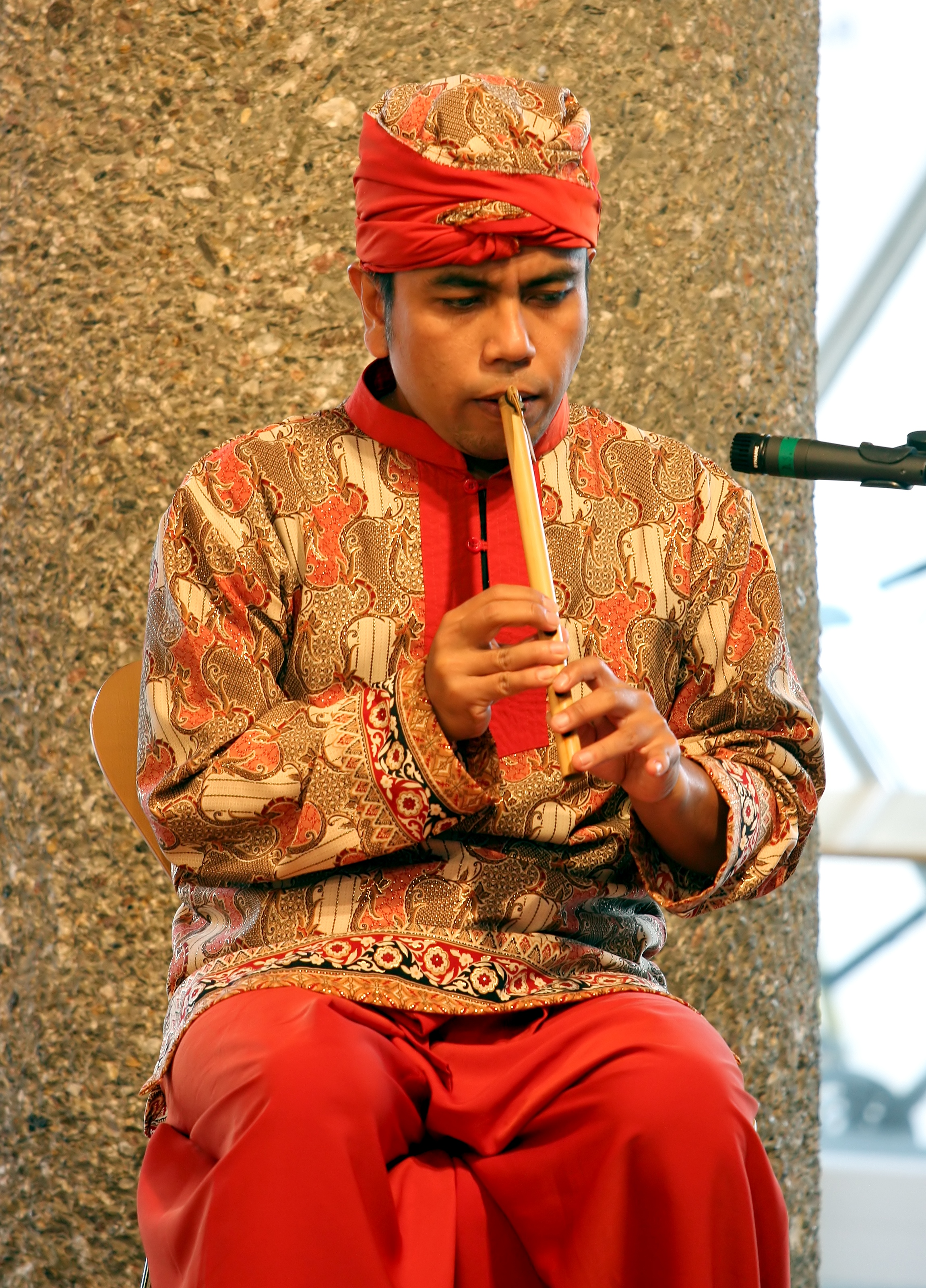 The SambaSunda quintett from Java, Indonesia, performs in Cologne